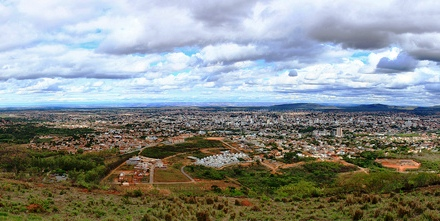 Partial view of Montes Claros, Minas Gerais, Brazil.